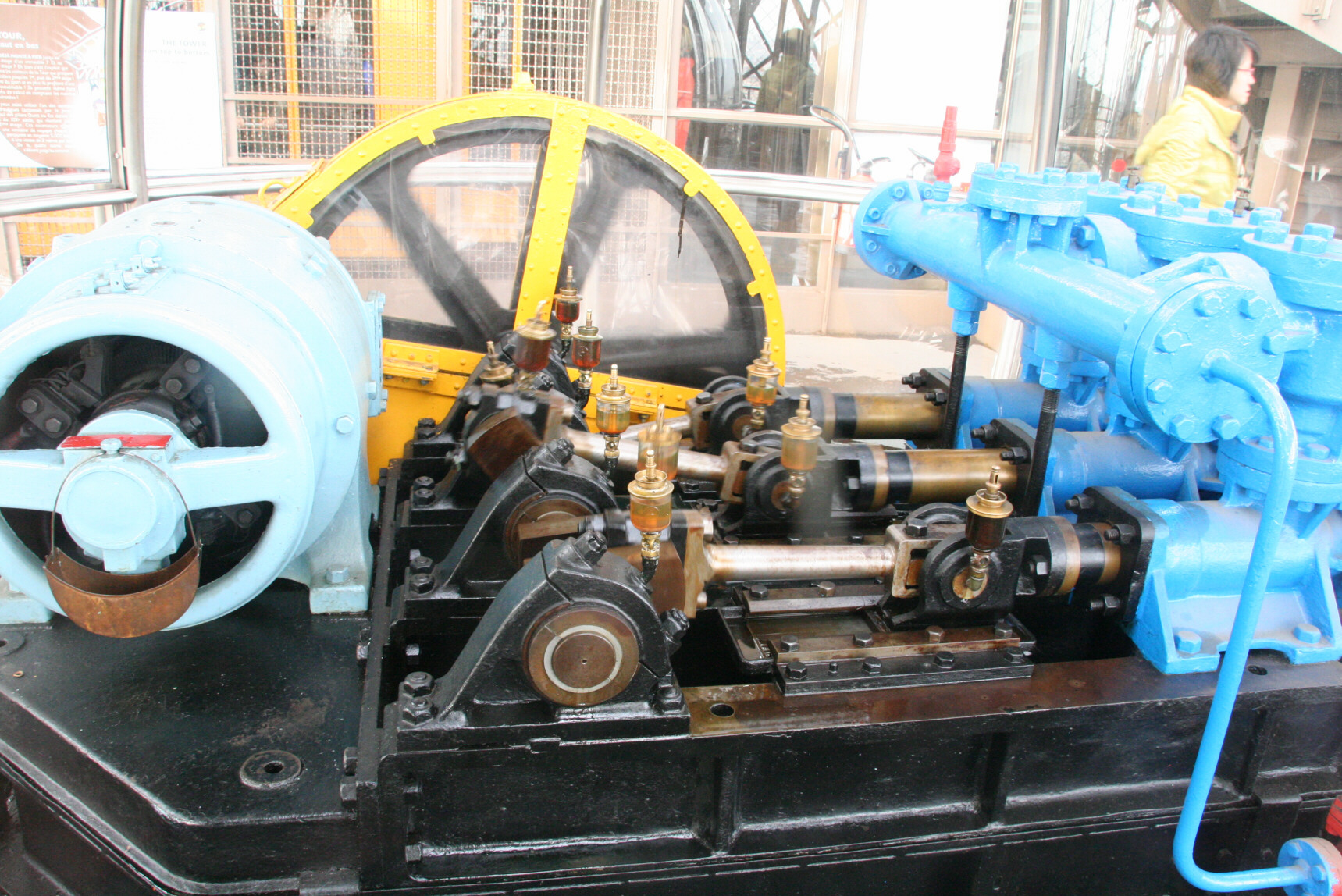 Edoux Pompe Nr 10 Removed from the following pages: Eiffel Tower --OrphanBot (talk) 09:09, 7 December 2008 (UTC)